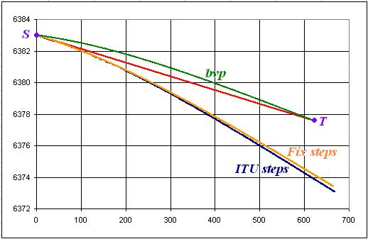 comparison of methods